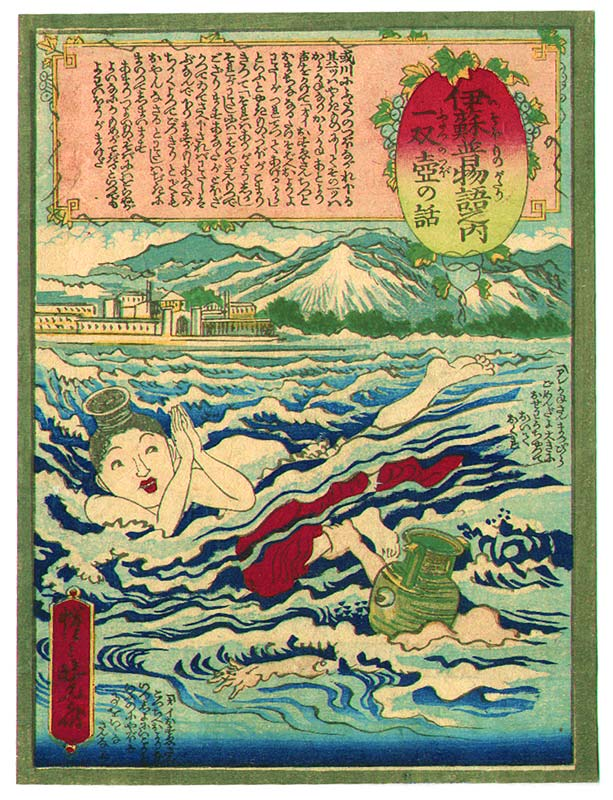 A Japanese block-print of the fable of the two poets from the Isoho Monogatari series by Kawanabe Kyosai (1831 - 1889)